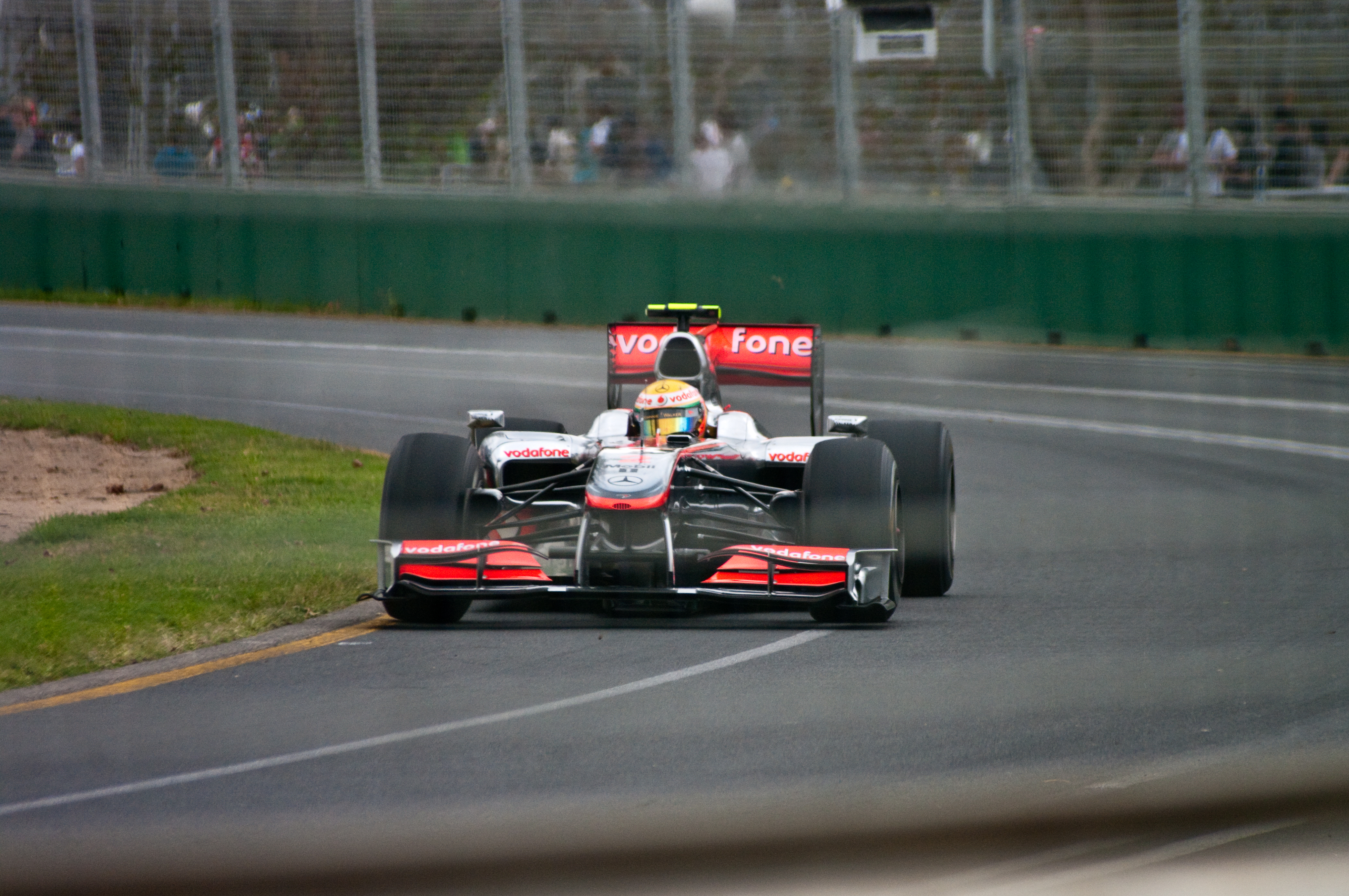 Lewis Hamilton driving for McLaren at the 2010 Australian Grand Prix.